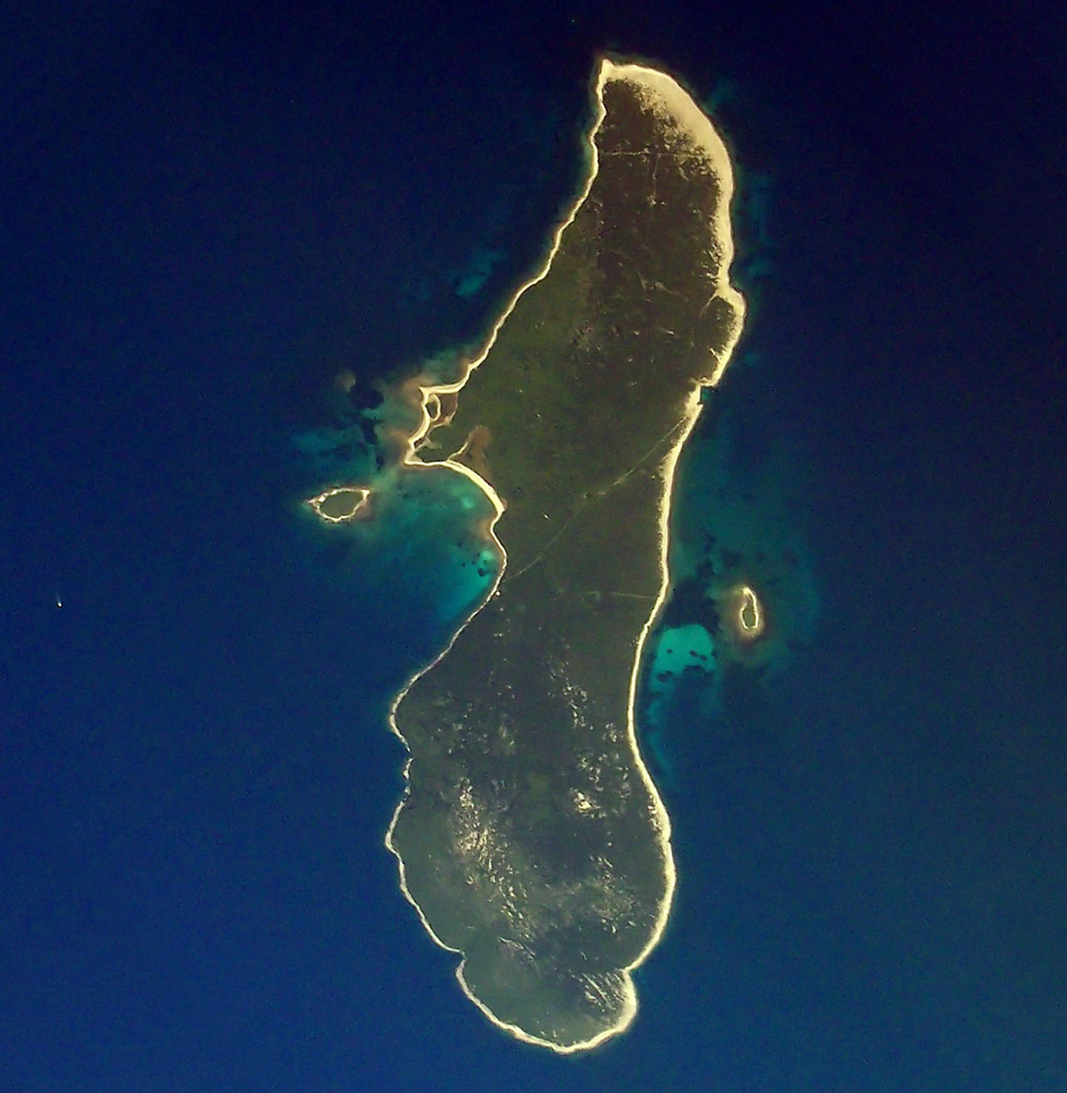 Aerial view of Zeča island, off the Cres coast, Croatia, Adriatic see.